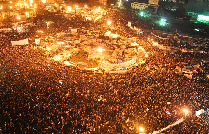 Over 2 millions protesting in Tahrir Square after Mubarak's speech saying that he will not step down. February 11, 2011 - 12:18 AM